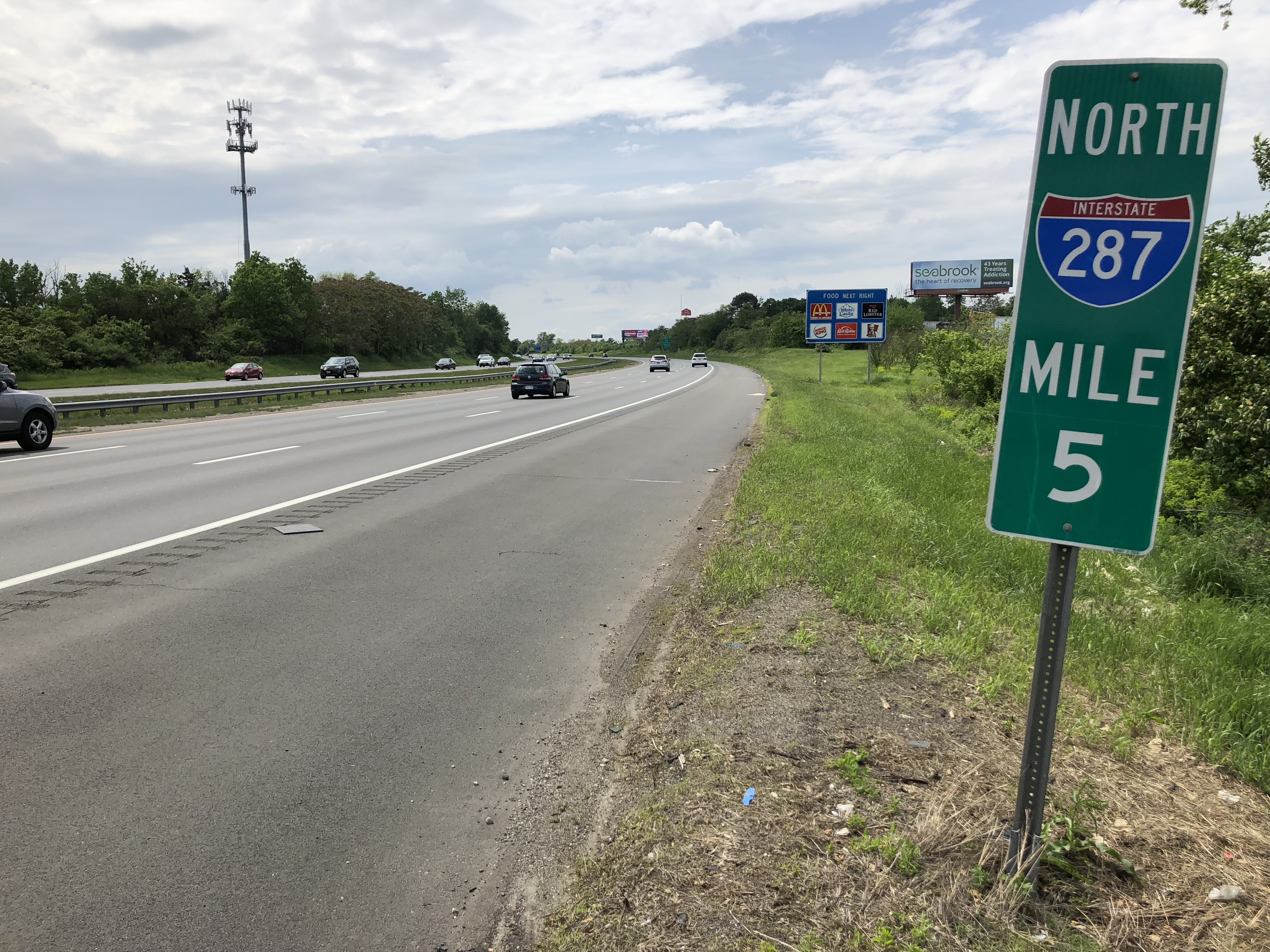 View north along Interstate 287 (Middlesex Freeway) between Exit 4 and Exit 5 in South Plainfield, Middlesex County, New Jersey